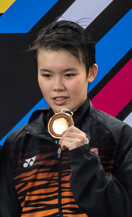 Sea Games Badmintion Final